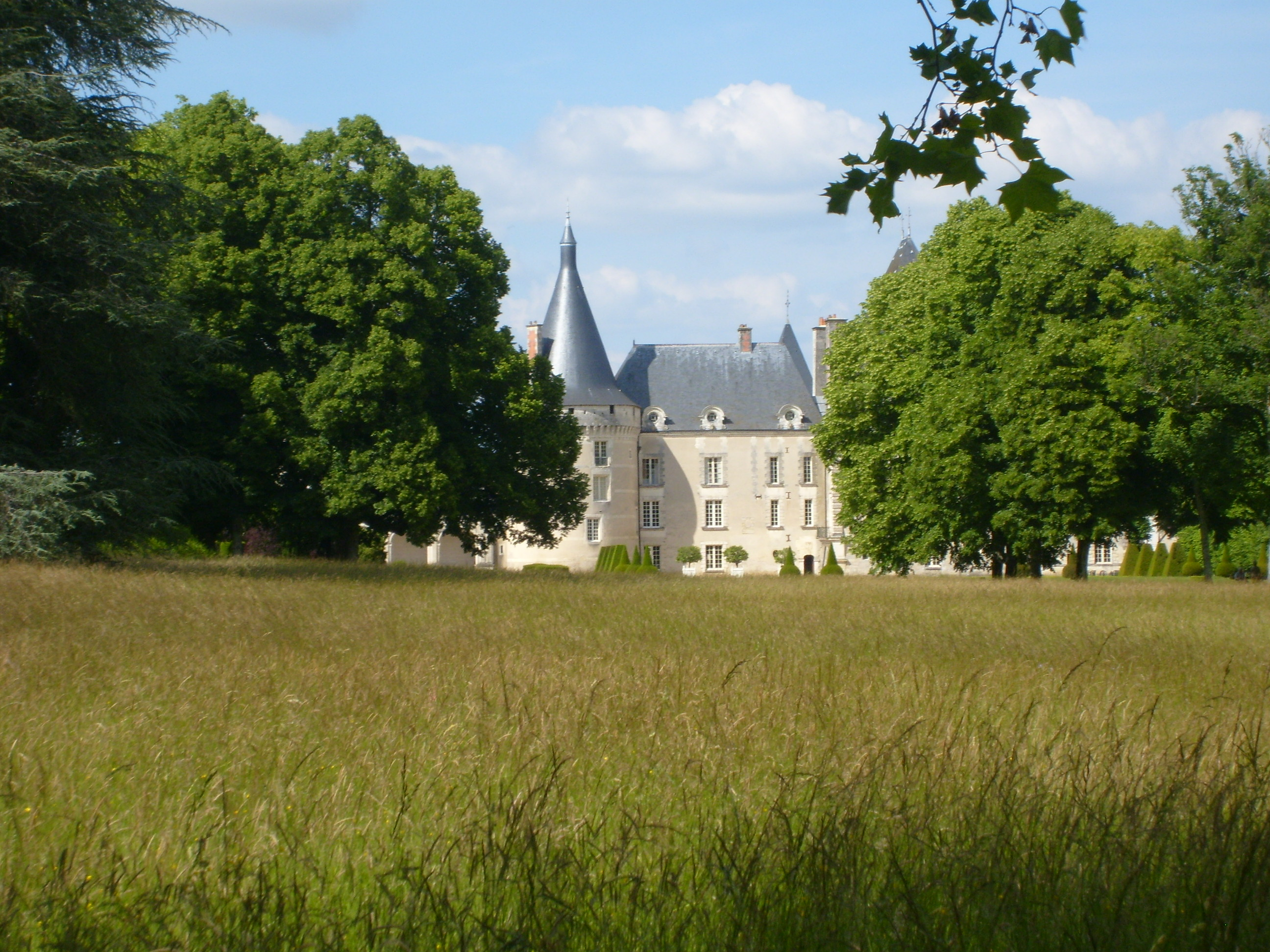 Chateau d'Azay-le-Ferron viewed from the park